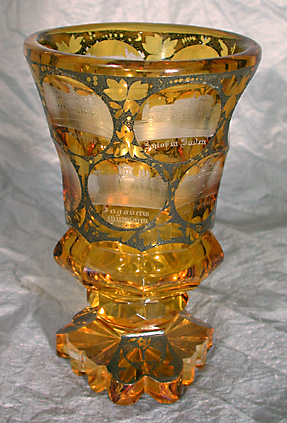 Souvenir Glass with several Cuts of Tourist Sites in Germany, ca. 1850